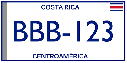 Costa Rica Private Vehicle 2013